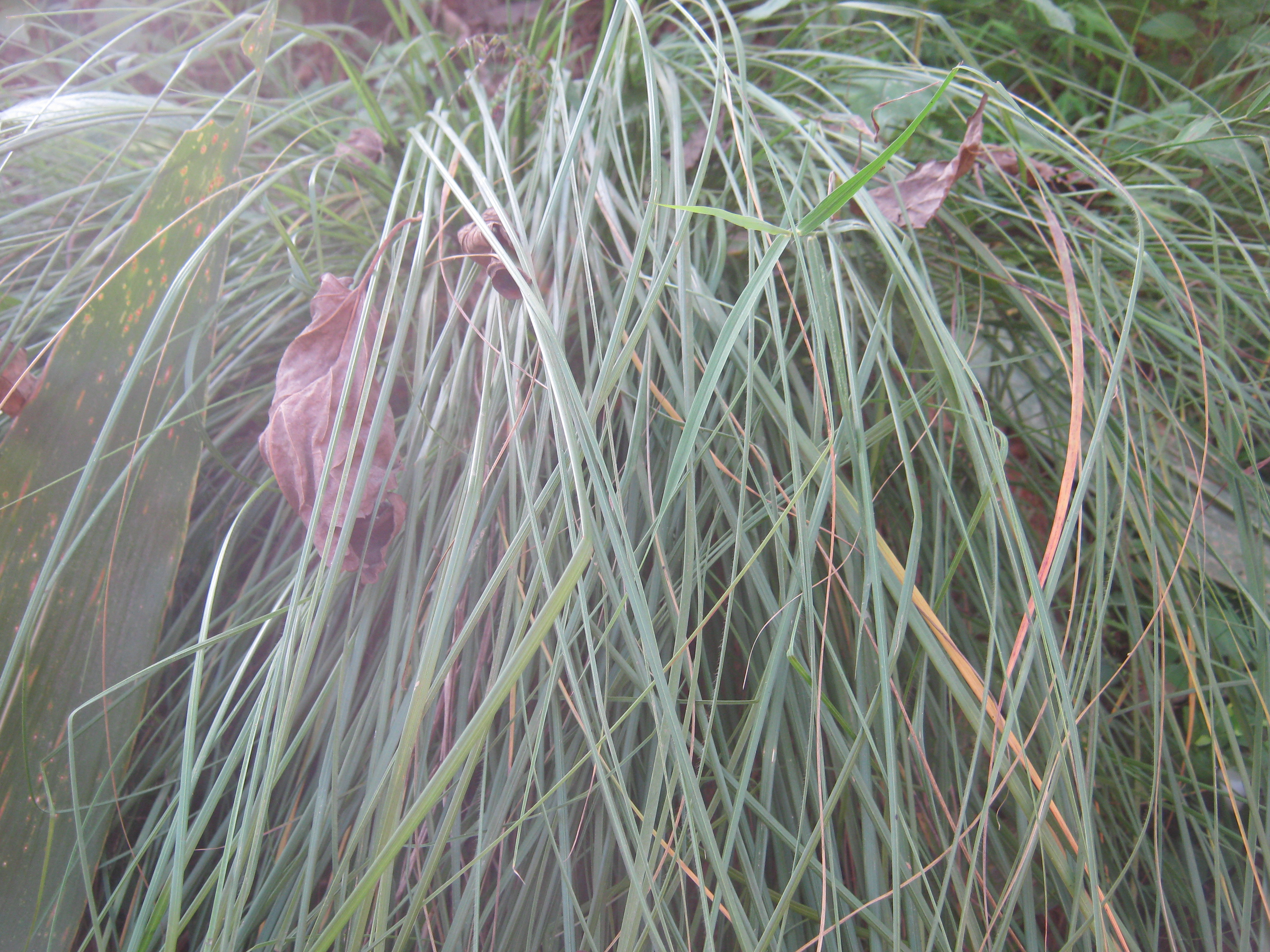 A plant with long leaves used to make rope.